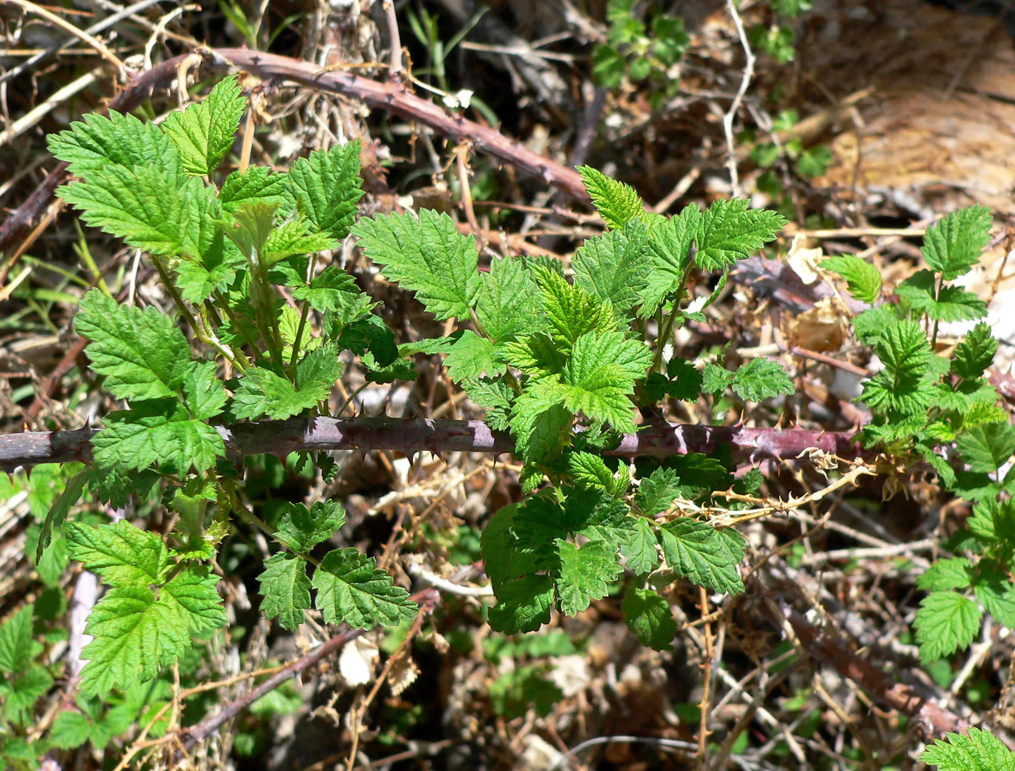 Rubus leucodermis in Carpenter Canyon about 1 km above the road end/turnaround, Spring Mountains, southern Nevada (elev. about 2200 m)